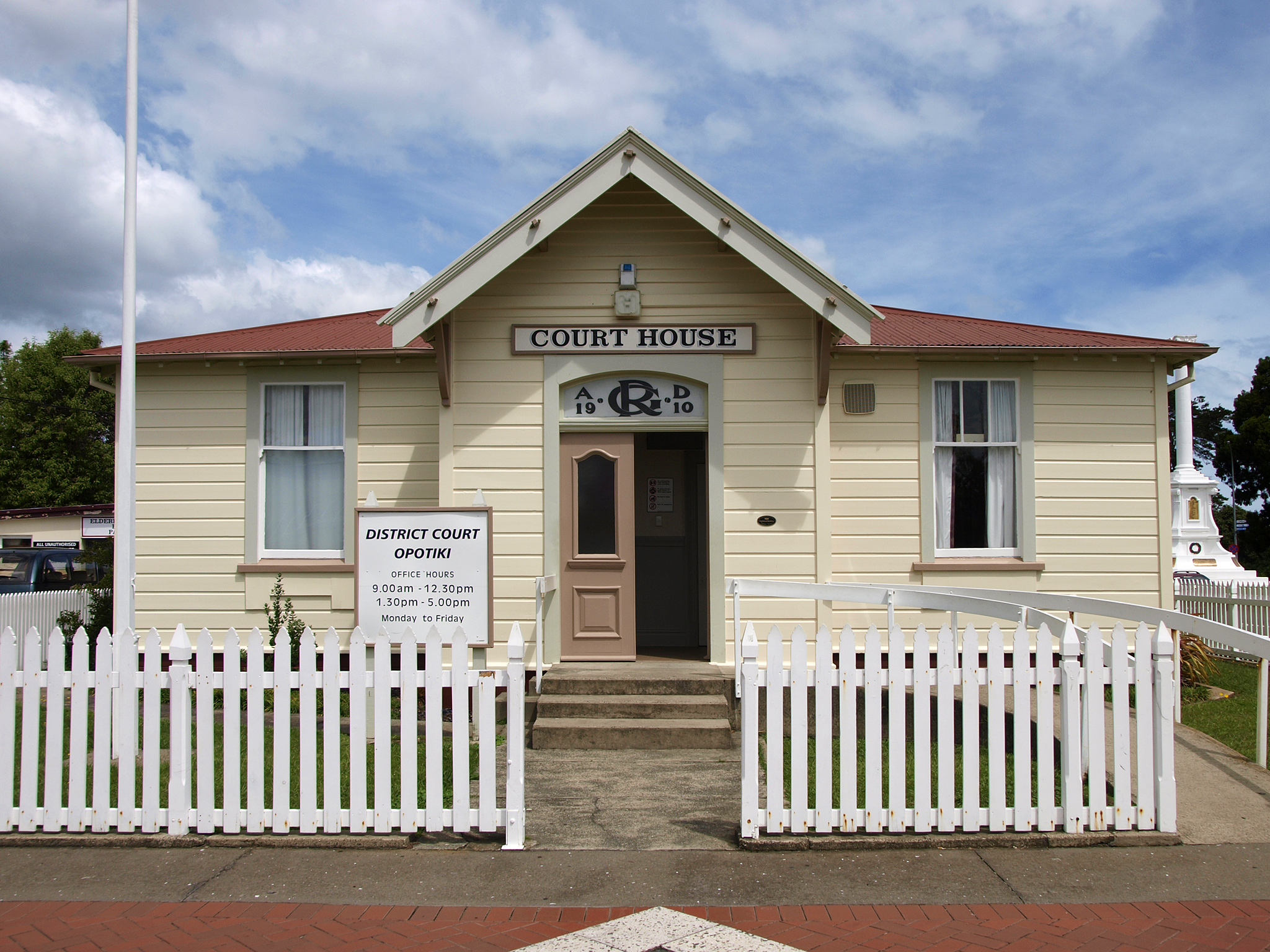 Court House of Opotiki, Bay of Plenty, New Zealand, built 1910. Historical building.